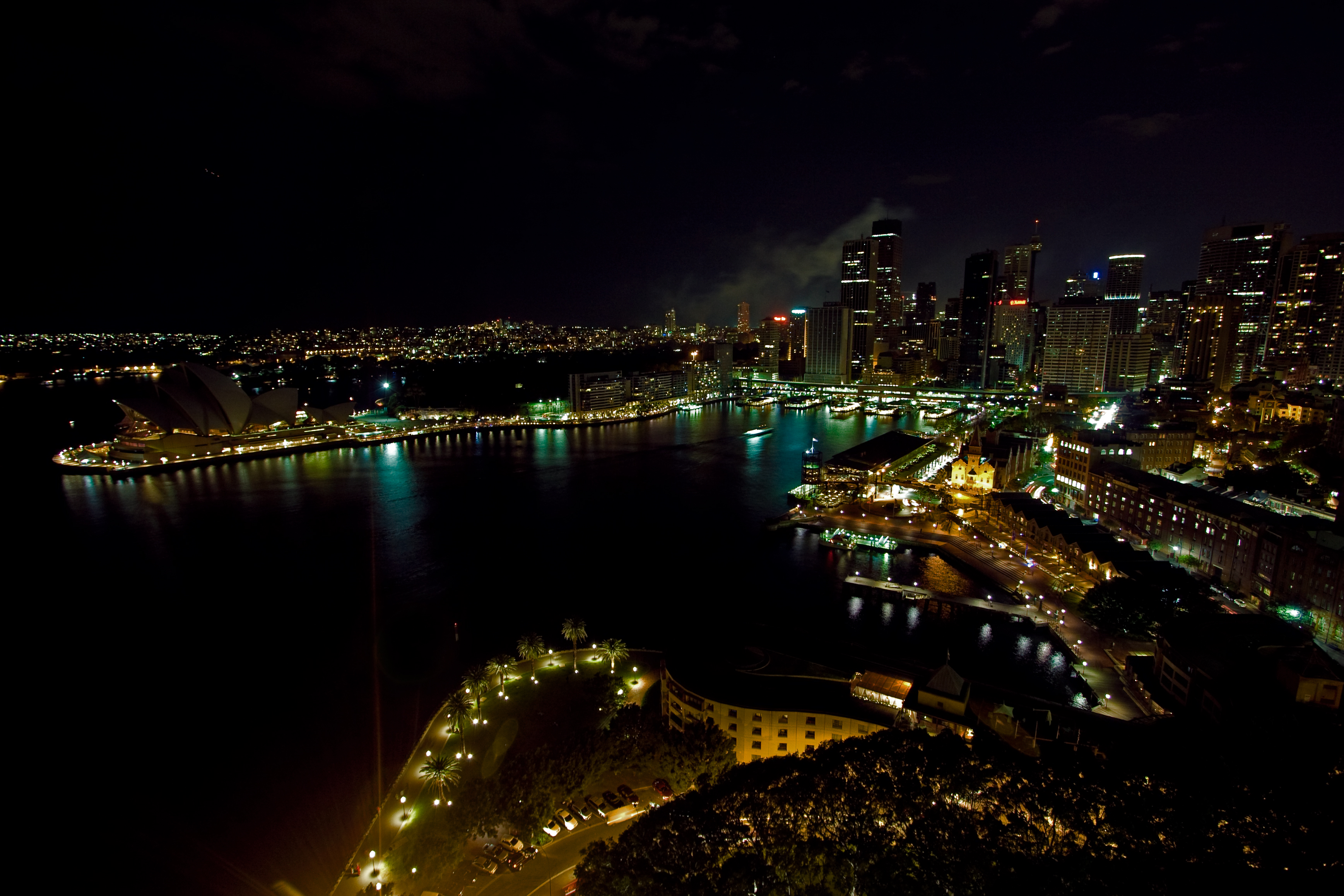 Earth Hour 2008 - Sydney, Australia cc-by- Erik Panch